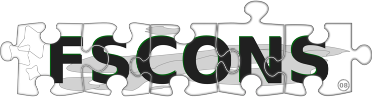 Logotype of the FSCONS 2008 conference, organized jointly by Free Software Foundation Europe, Wikimedia Sverige, and Creative Commons Sverige. Transparent background.